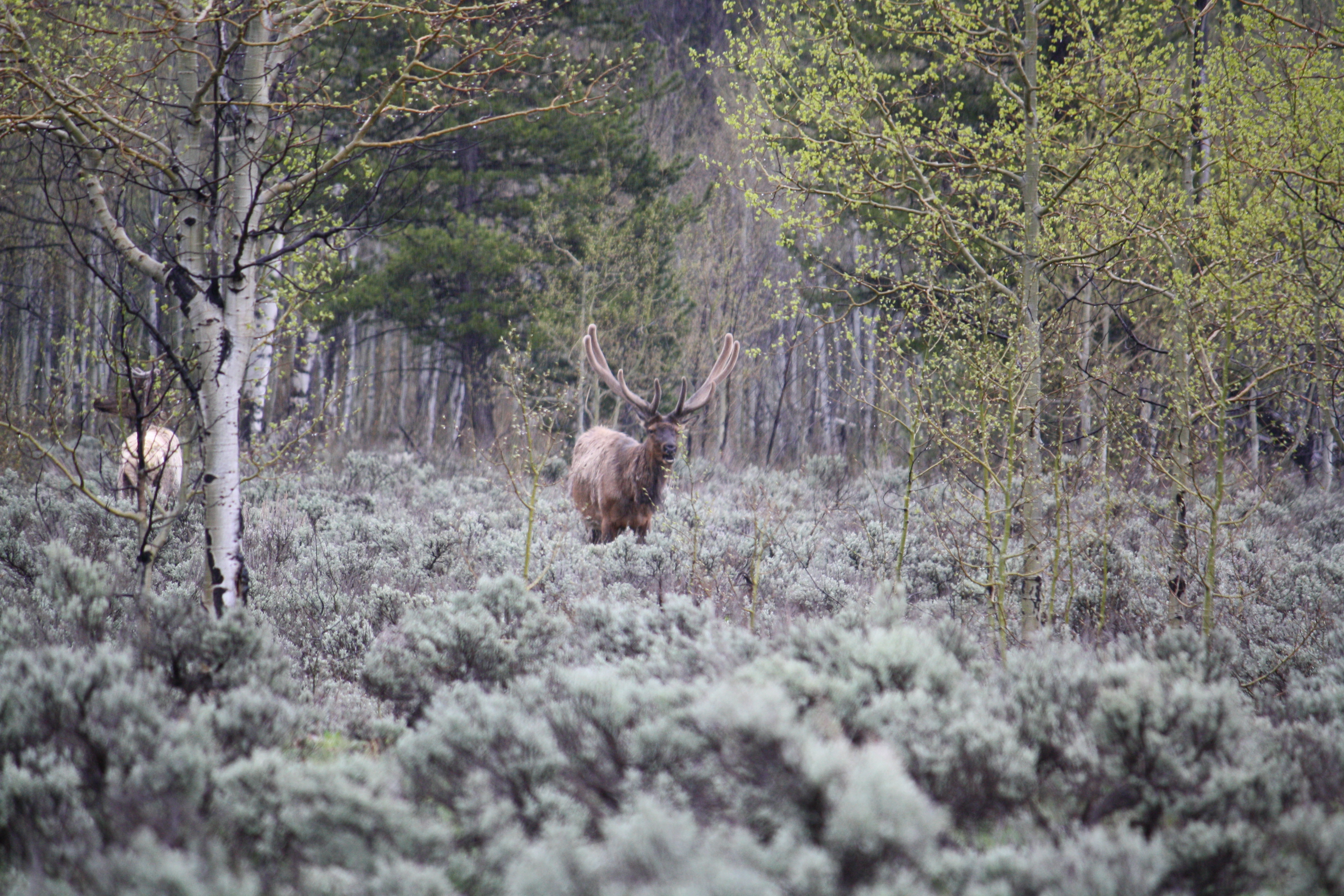 Elk (Cervus canadensis) in Jackson Hole Wyoming, United States